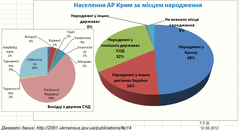 The population of Crimea (Ukraine) at the place of birth (according to Census 2001)